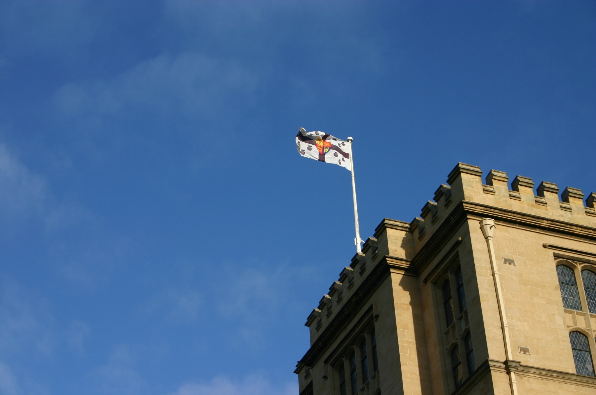 Queen's College (The University of Melbourne) Tower